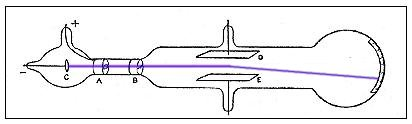 2sd experiment.